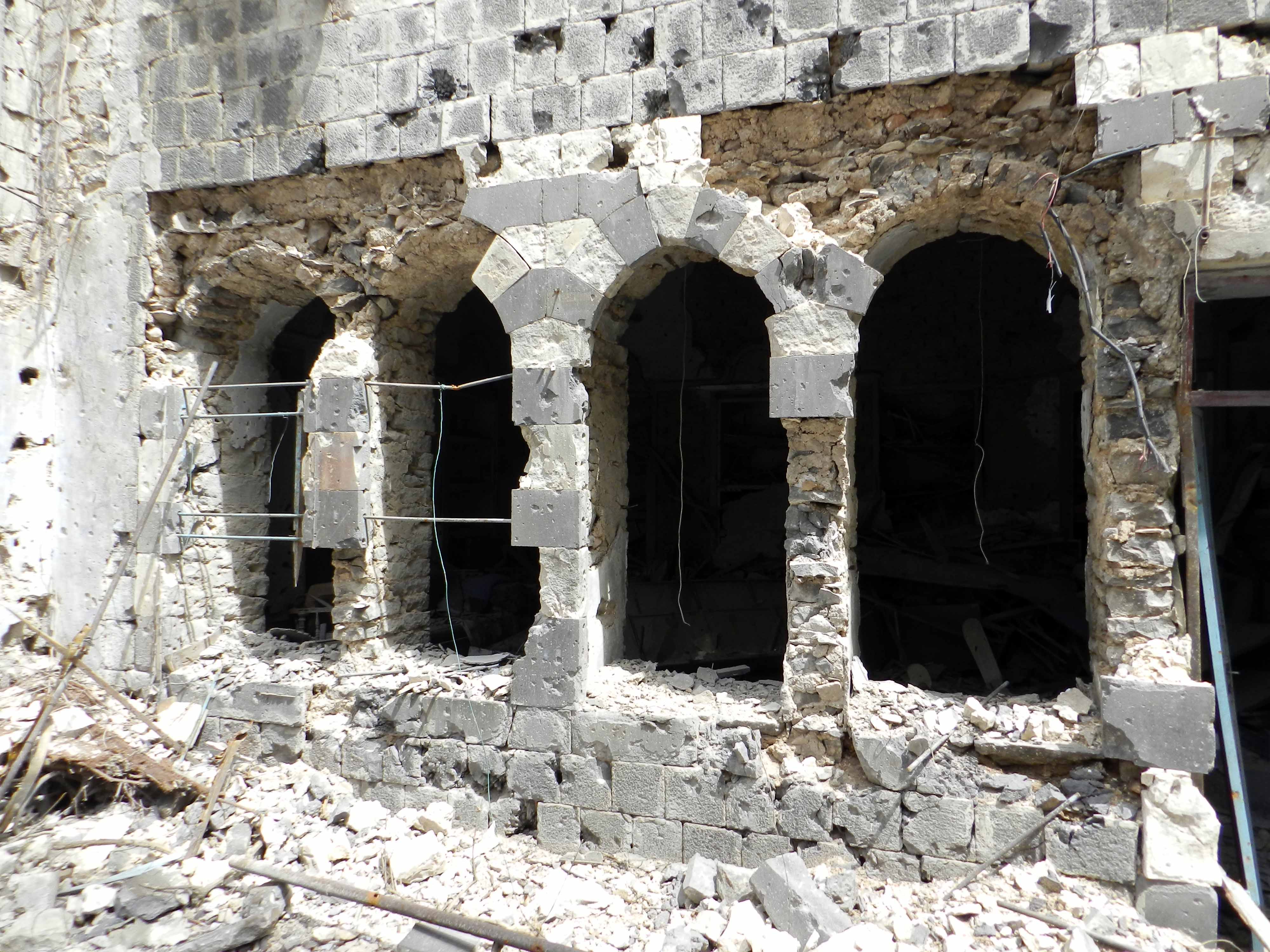 Destruction in the Bab Dreeb area of Homs, Syria (2012).